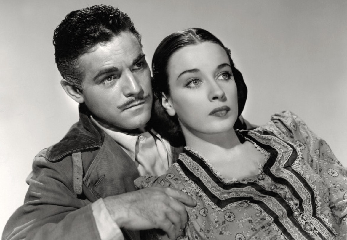 Alan Curtis & Patricia Morison in Hitler's Madman - publicity still (cropped : see source)